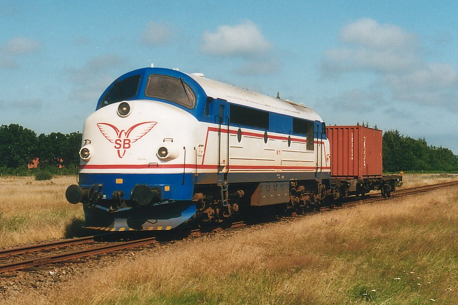 M11 with short freighttrain from Skagen to Frederikshavn. Skagenbanen has already merged into Nordjyske Jernbaner, but most of the stock still shows the Skagensbanen logos.